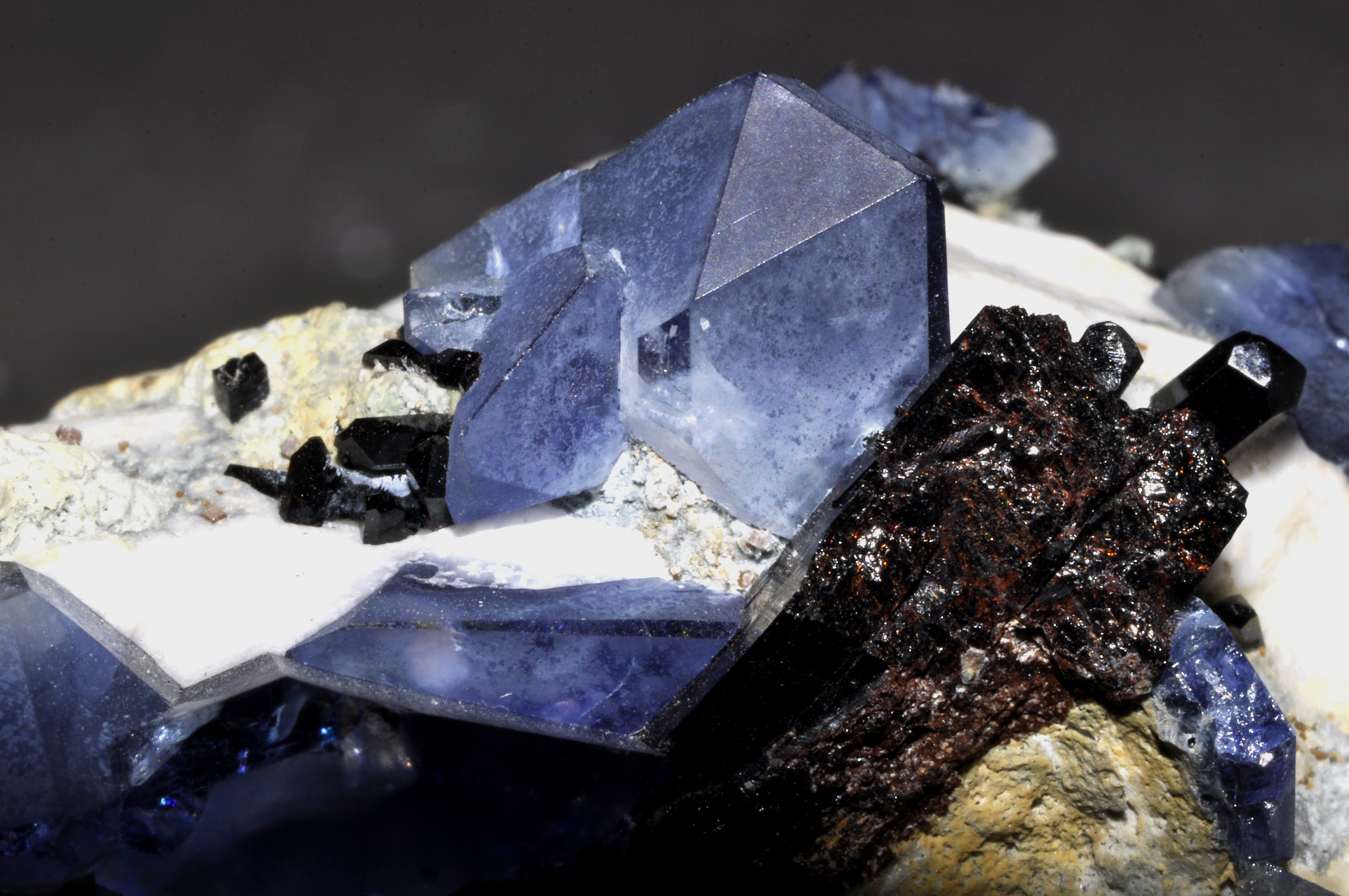 benitoïte, neptunite, joaquinite-(Ce), natrolite, serpentine : Dallas Gem Mine (Benitoite Mine ; Benitoite Gem Mine ; Gem Mine), Dallas Gem Mine area, San Benito River headwaters area, New Idria District, Diablo Range, San Benito Co., California, USA (Locality at